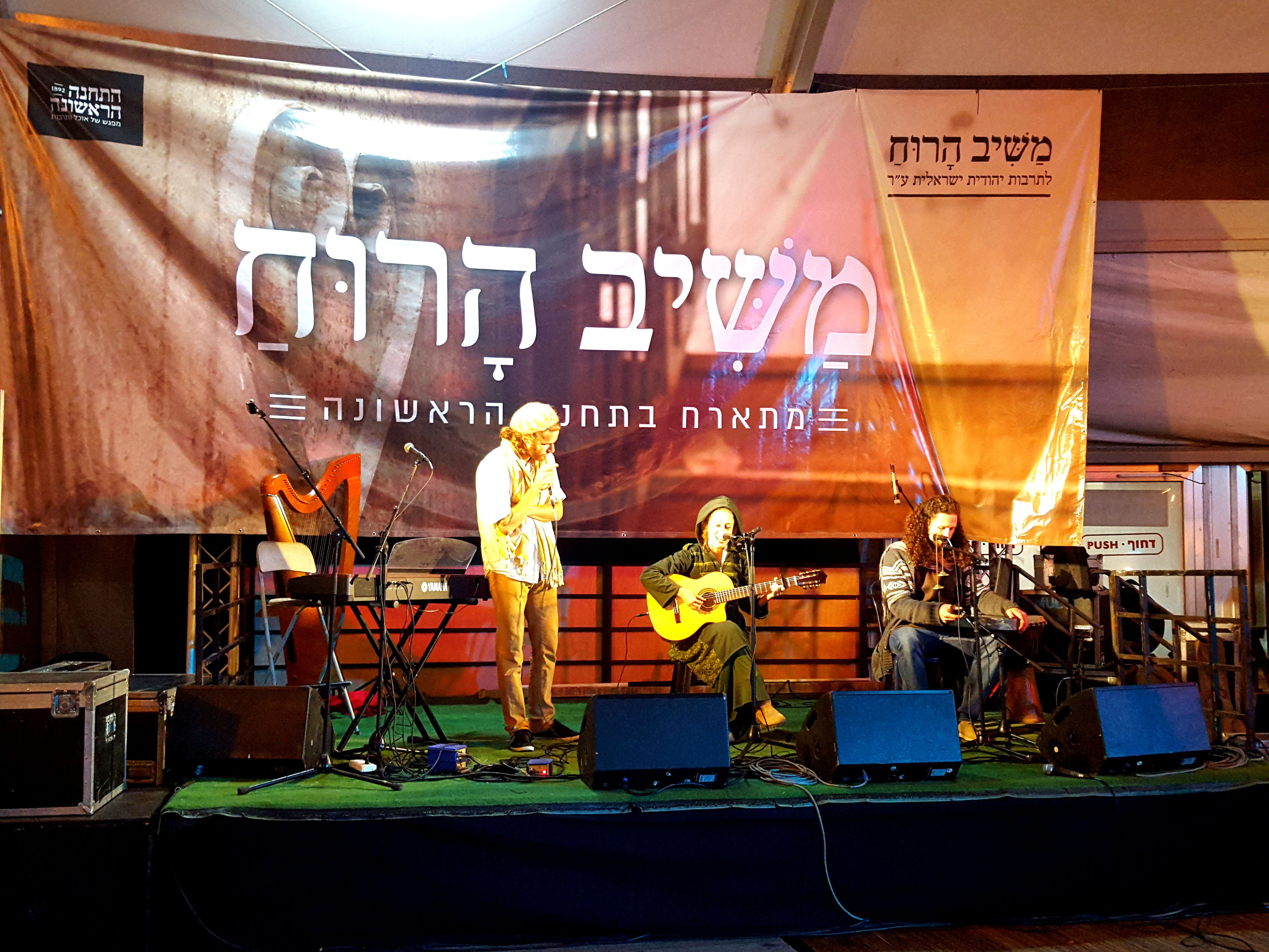 Israeli musicians perform at "Sounds of soul journey" - "Massa Le'Zlilay Ha'Neshama" at "Meshive Ha'Rouache"